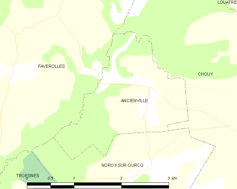 Map of French commune: Ancienville Map commune FR insee code 02015.png